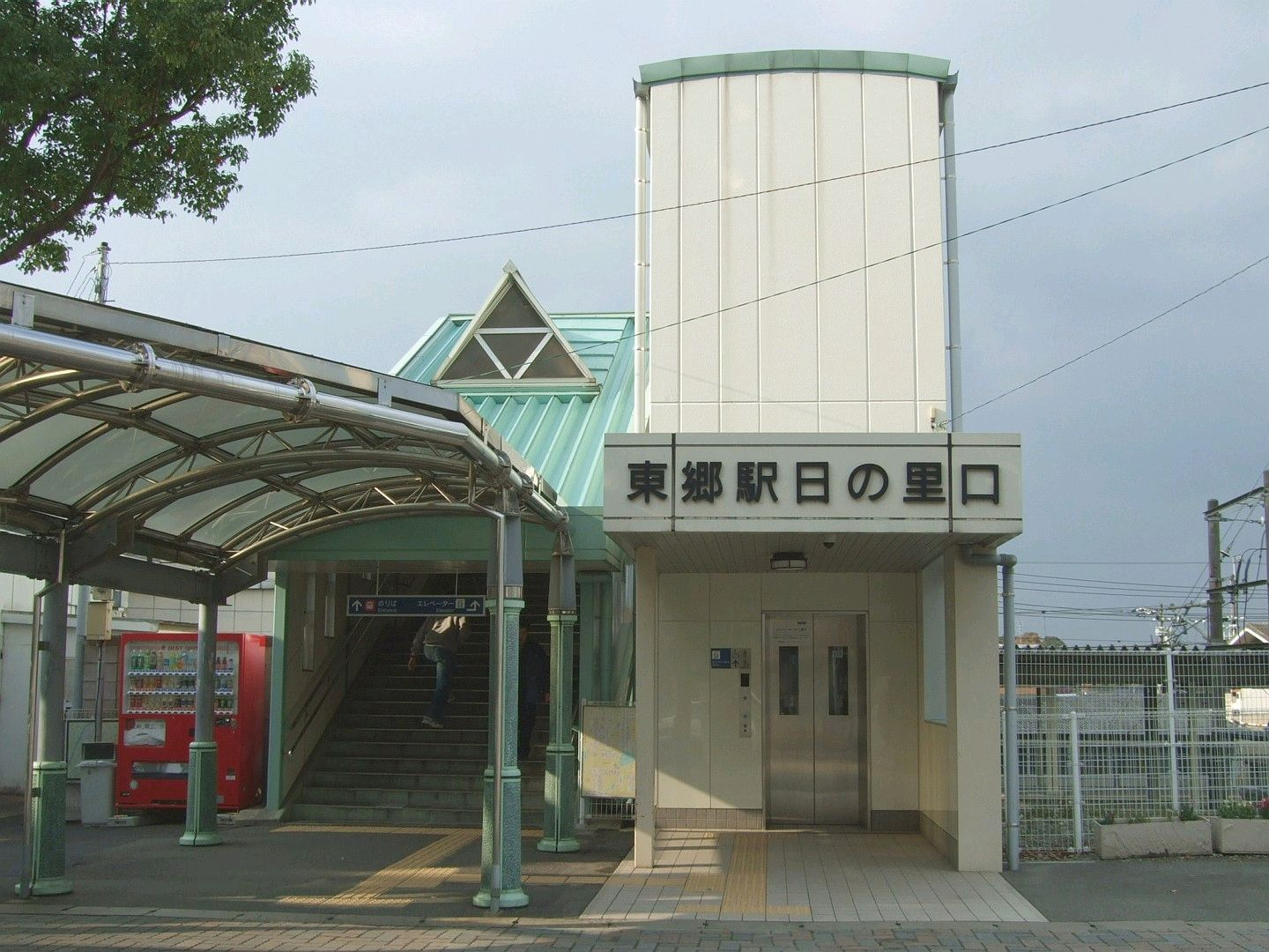 Togo Station, Kagoshima Main Line, Kyushu Railway Company.